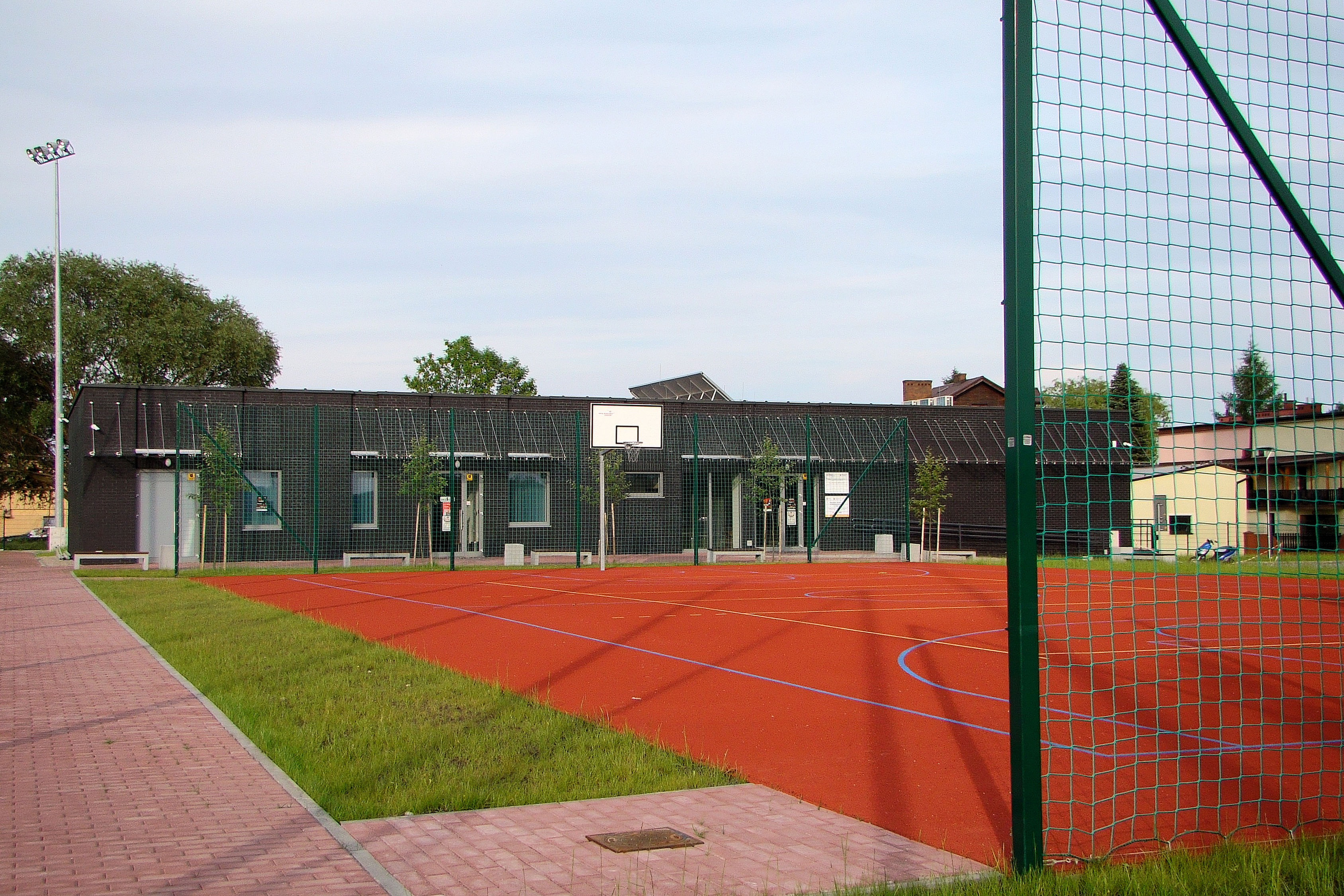 Kraków - National Rugby 7 Centre in Lubocza